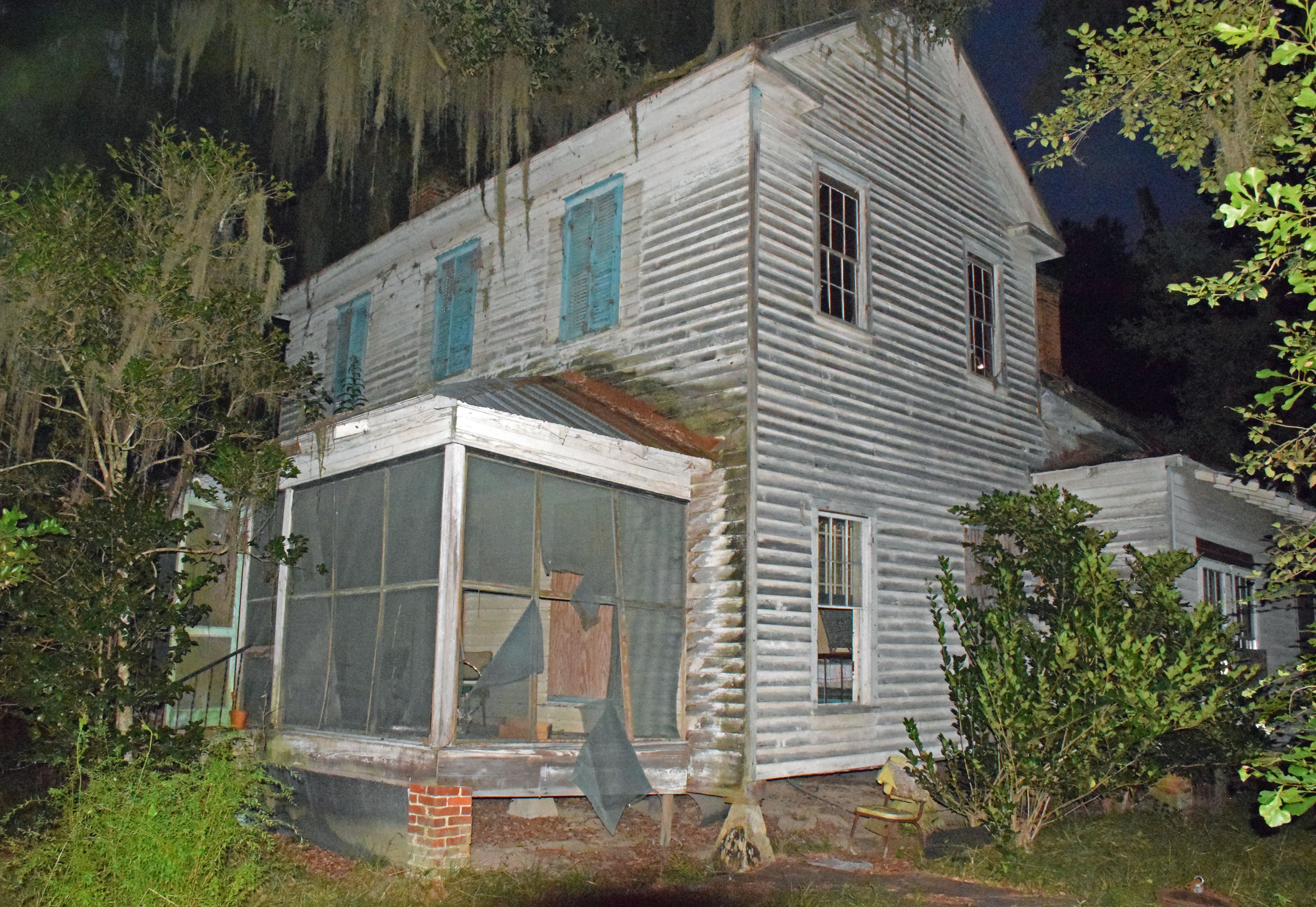 Glen Echo house, front. Ellabell, Georgia, US